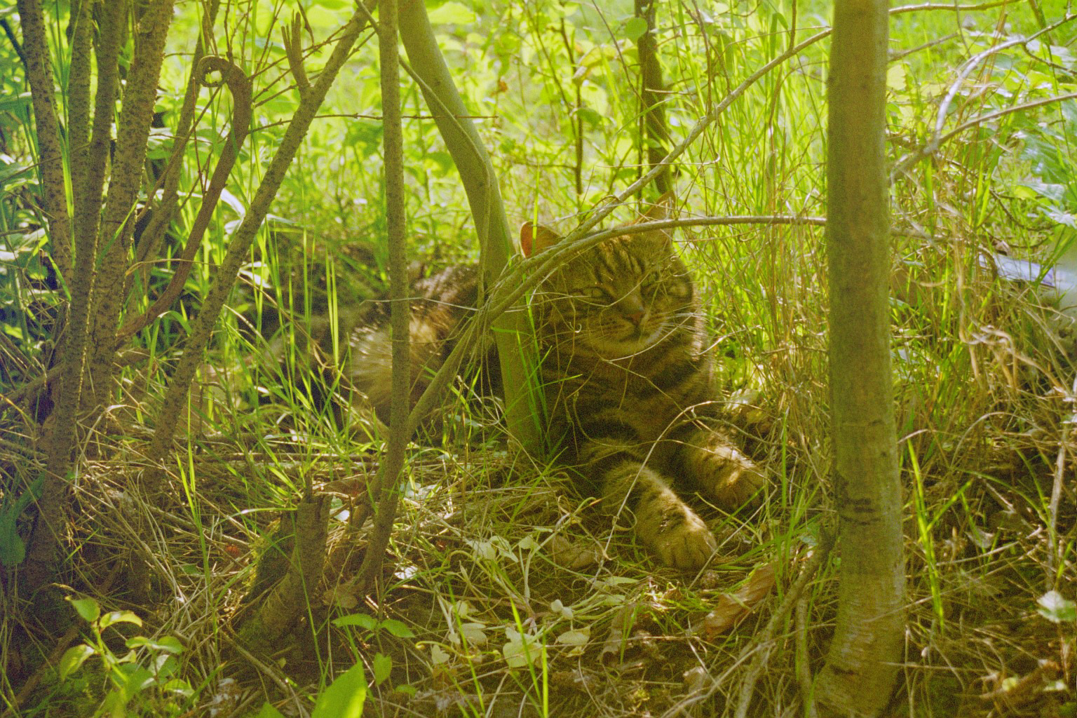 Cat blending in with its surroundings